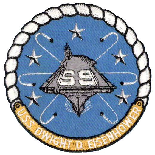 Patch of USS Dwight D. Eisenhower (CVN-69).